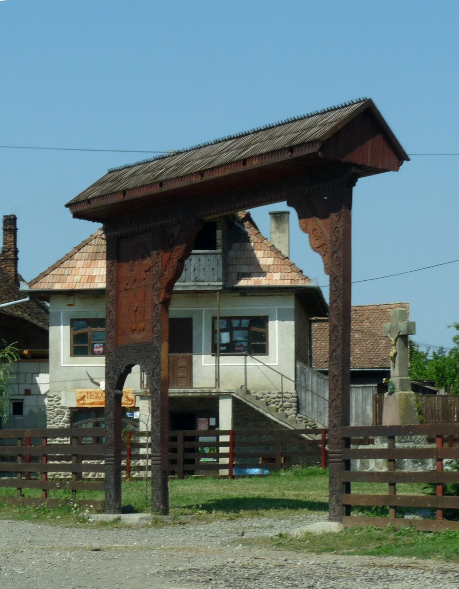 Szekler gate in Mătrici, Mureş County, Romania